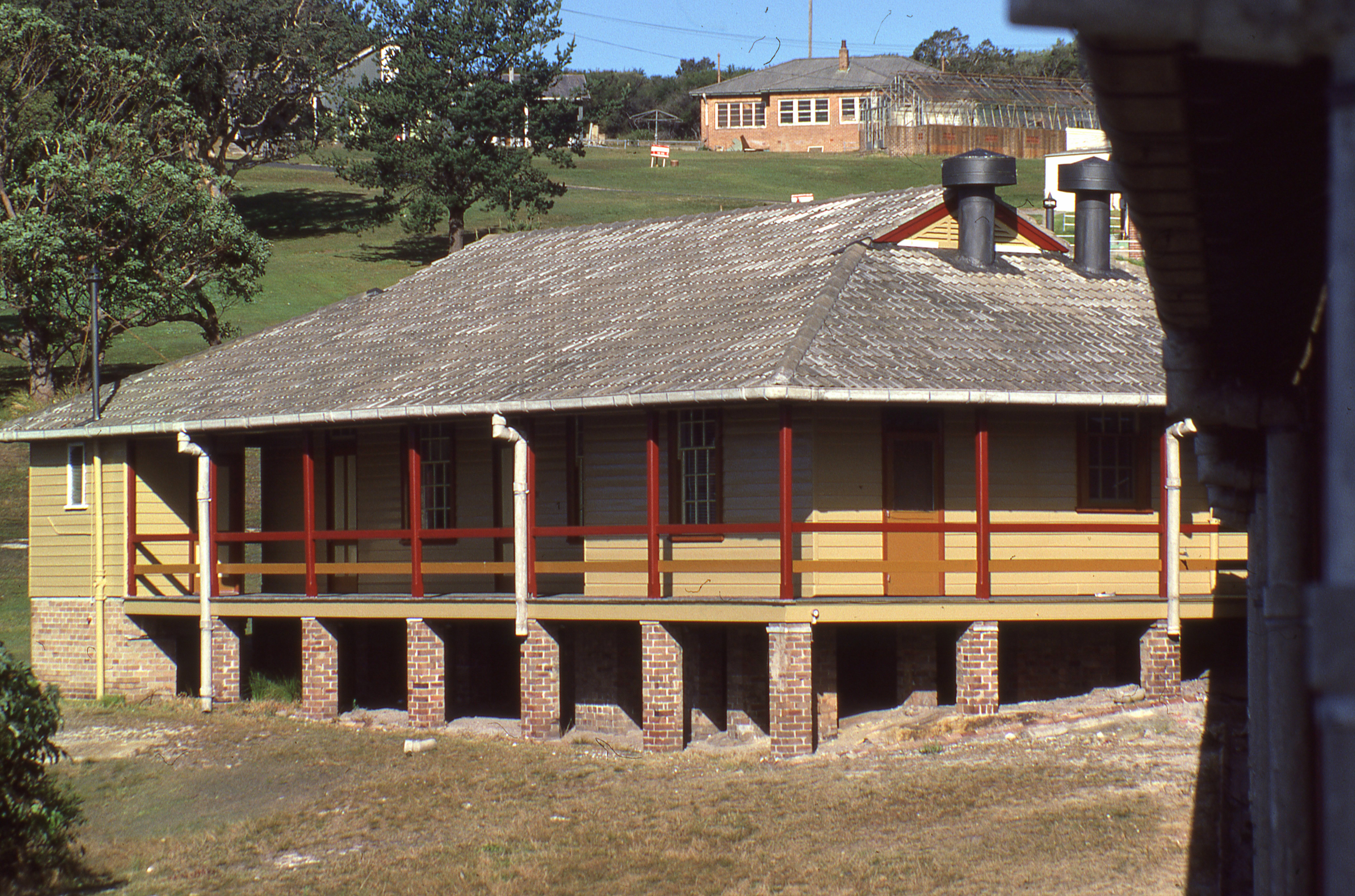 Quarantine Station, North Head, Sydney